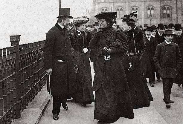 Hungarian aristocrats with count Gyula Andrássy outside the Parliament building, Budapest 1906